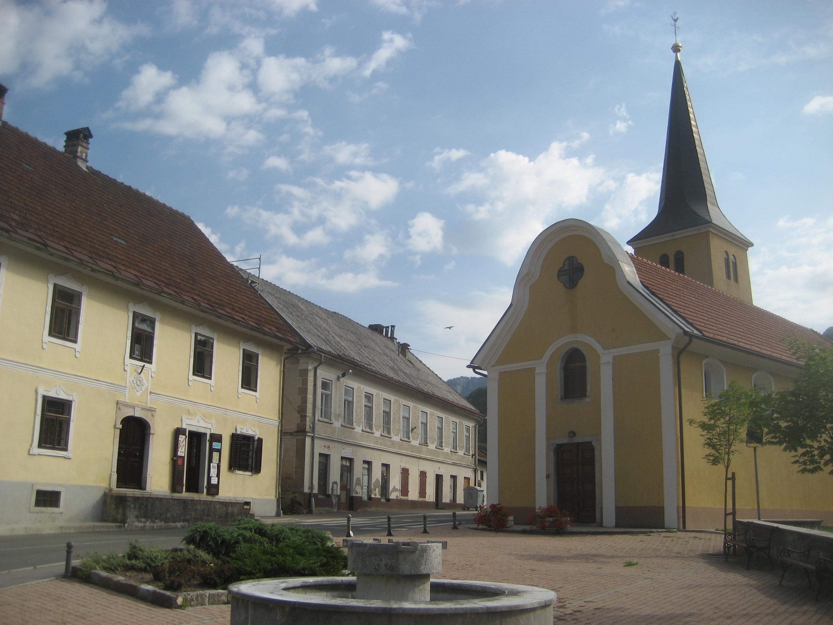 Center of the village Plešee, Croatia